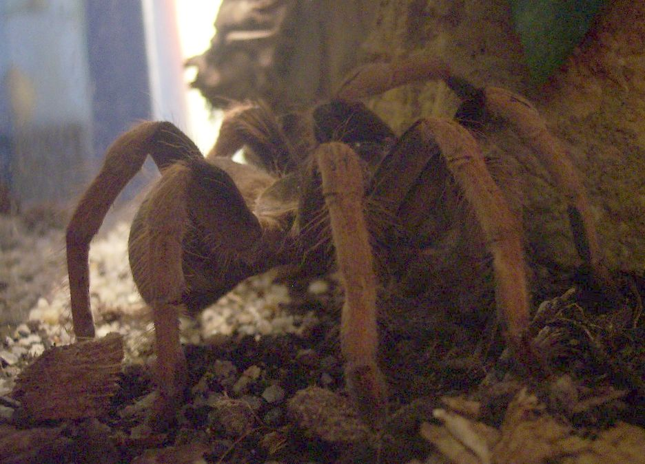 Megaphobema robusta, own picture